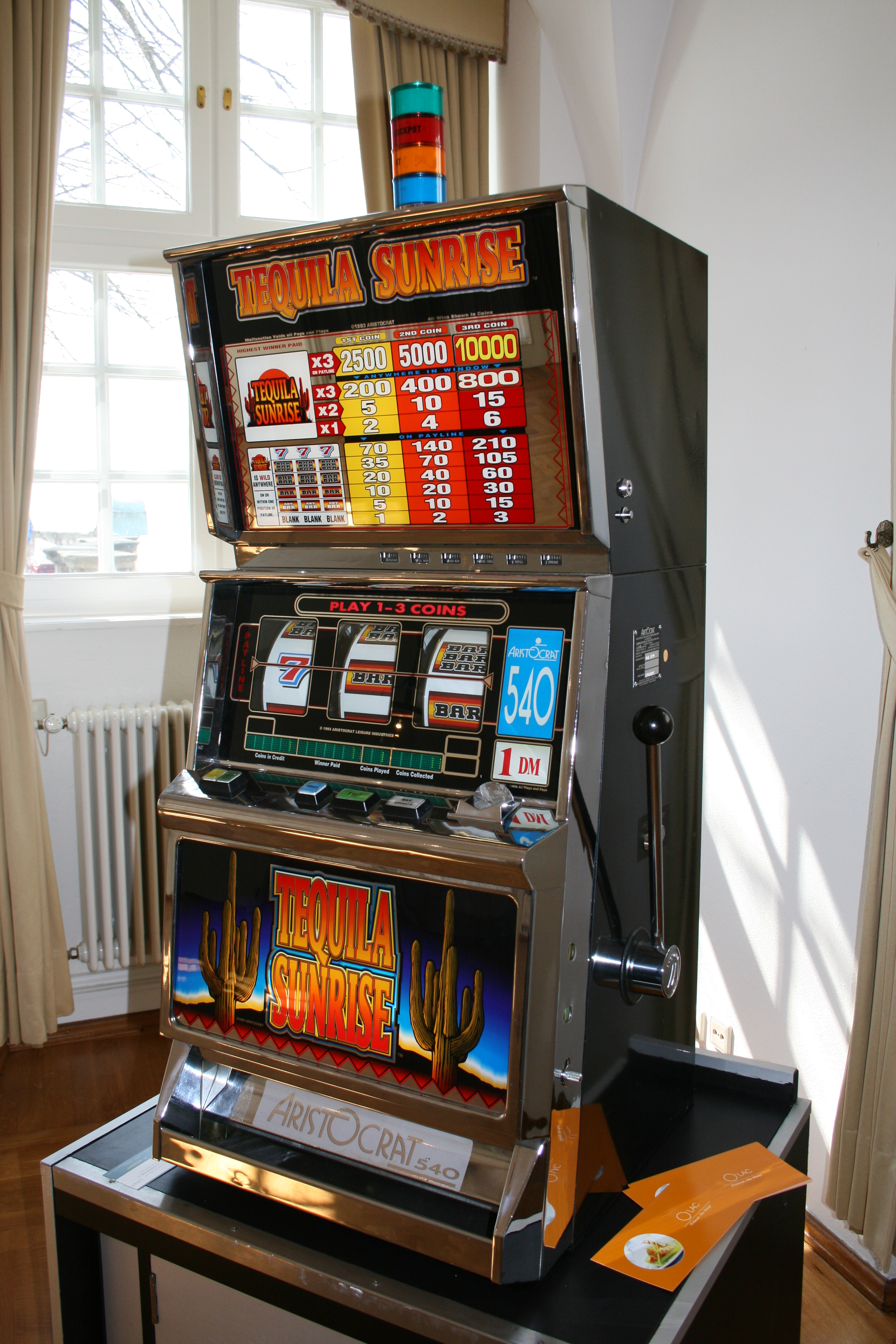 Slot Machine "Tequila Sunrise"